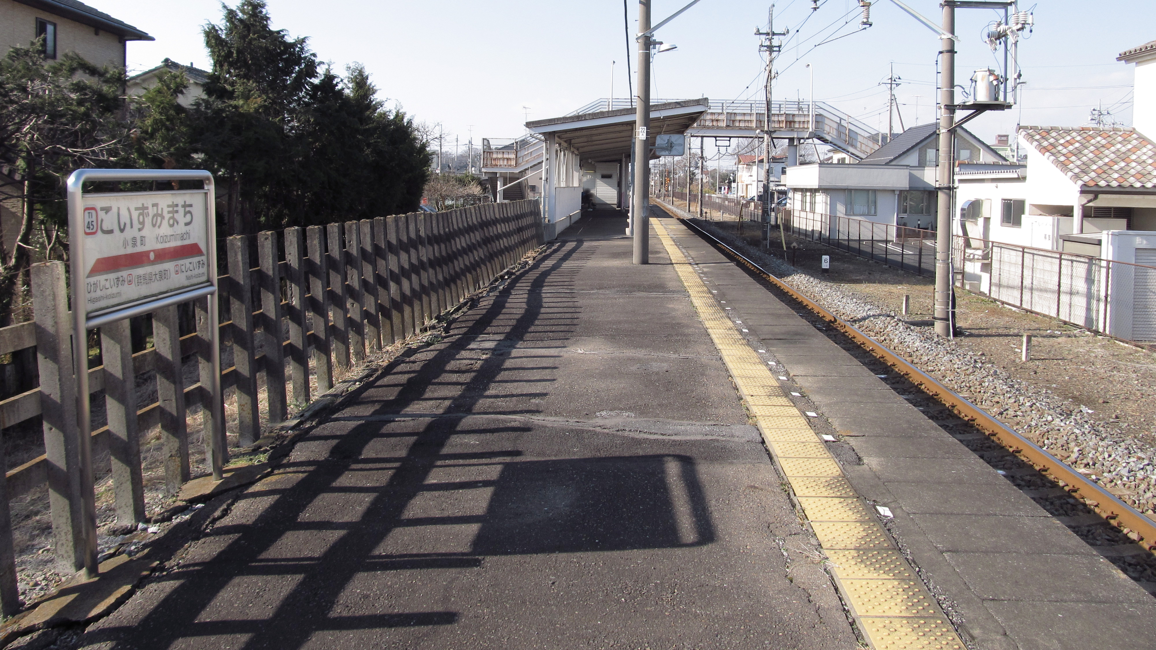 The platform at Koizumimachi Station on the Tobu Railway Koizumi Line in Ōizumi town, Gumma prefecture, Japan